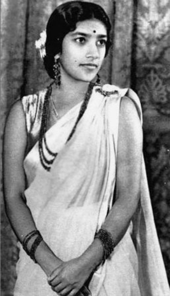 This is the portrait of Maharani Karthika Thirunal Lakshmi Bayi Of Travancore.